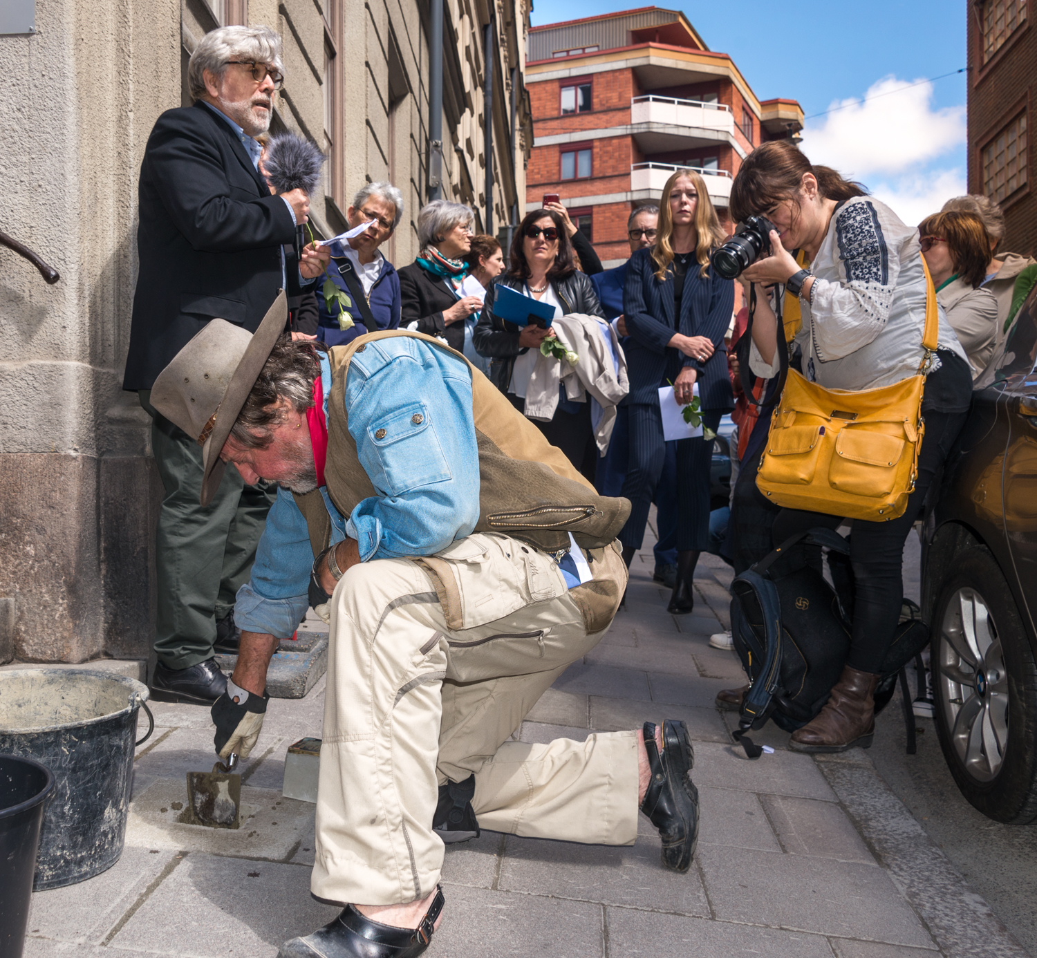 The Stolpersteine were laid on June 14, 2019. At Kungsholmstorg 6, a stone in memory of Erich Holewa who was expelled in 1938 and deported to Auschwitz in 1942 where he was killed. At Apelbergsgatan 36, a stone was placed in memory of Hans Eduard Szybilski. He was expelled in 1939 and deported from Berlin to Auschwitz in 1943. At Gumshornsgatan 6, a stumbling block was placed in memory of Curt Mosesh who was expelled in 1937 and probably killed in Riga in 1941.